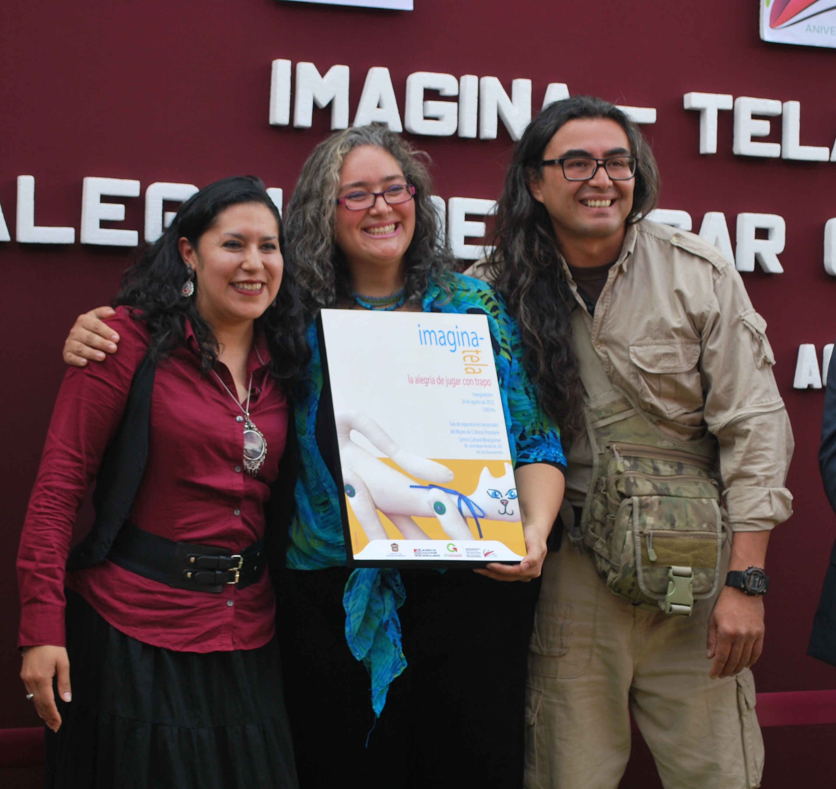 Thelma Morales, Ana Karen Allende and Sinhué Lucas at the opening of Retacitos exhibiton at the Museo de las Culturas Populares of the Centro Cultural Mexiquense in Toluca, Mexico